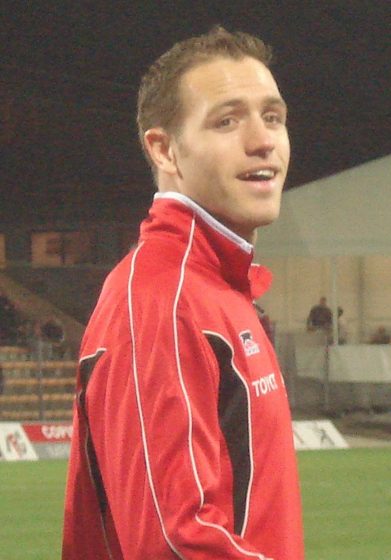 Patrick Paauwe (Valenciennes)